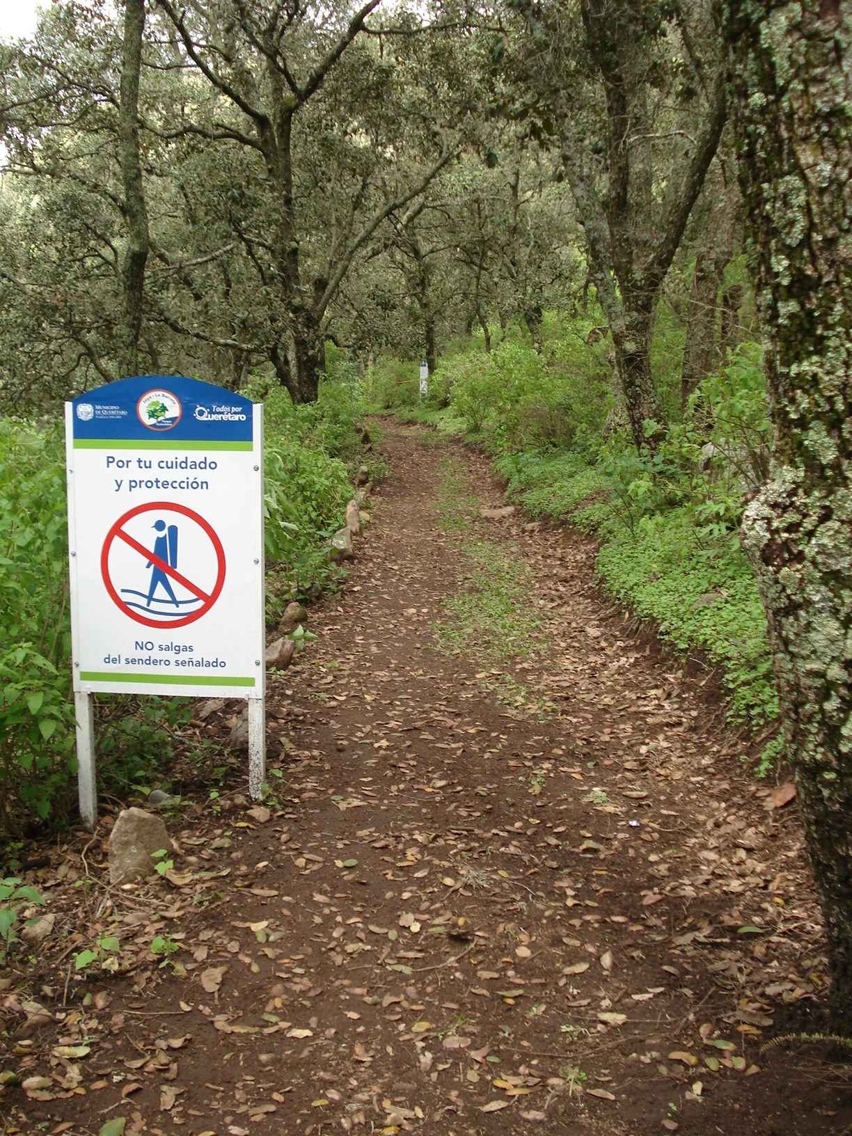 Hiking trail in theJoya La Barreta Park — Municipality of Querétaro, Querétaro state, México.